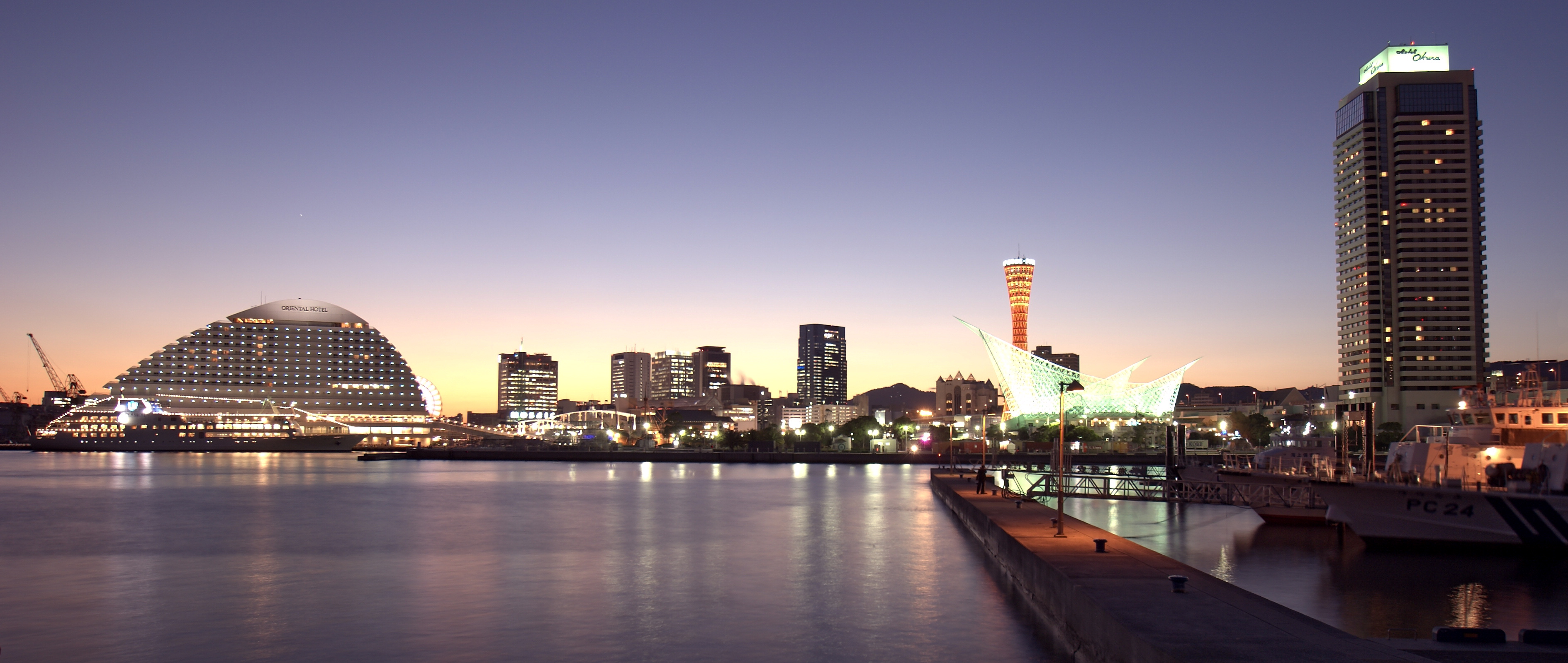 Port of Kobe at twilight in Kobe, Hyōgo Prefecture, Japan